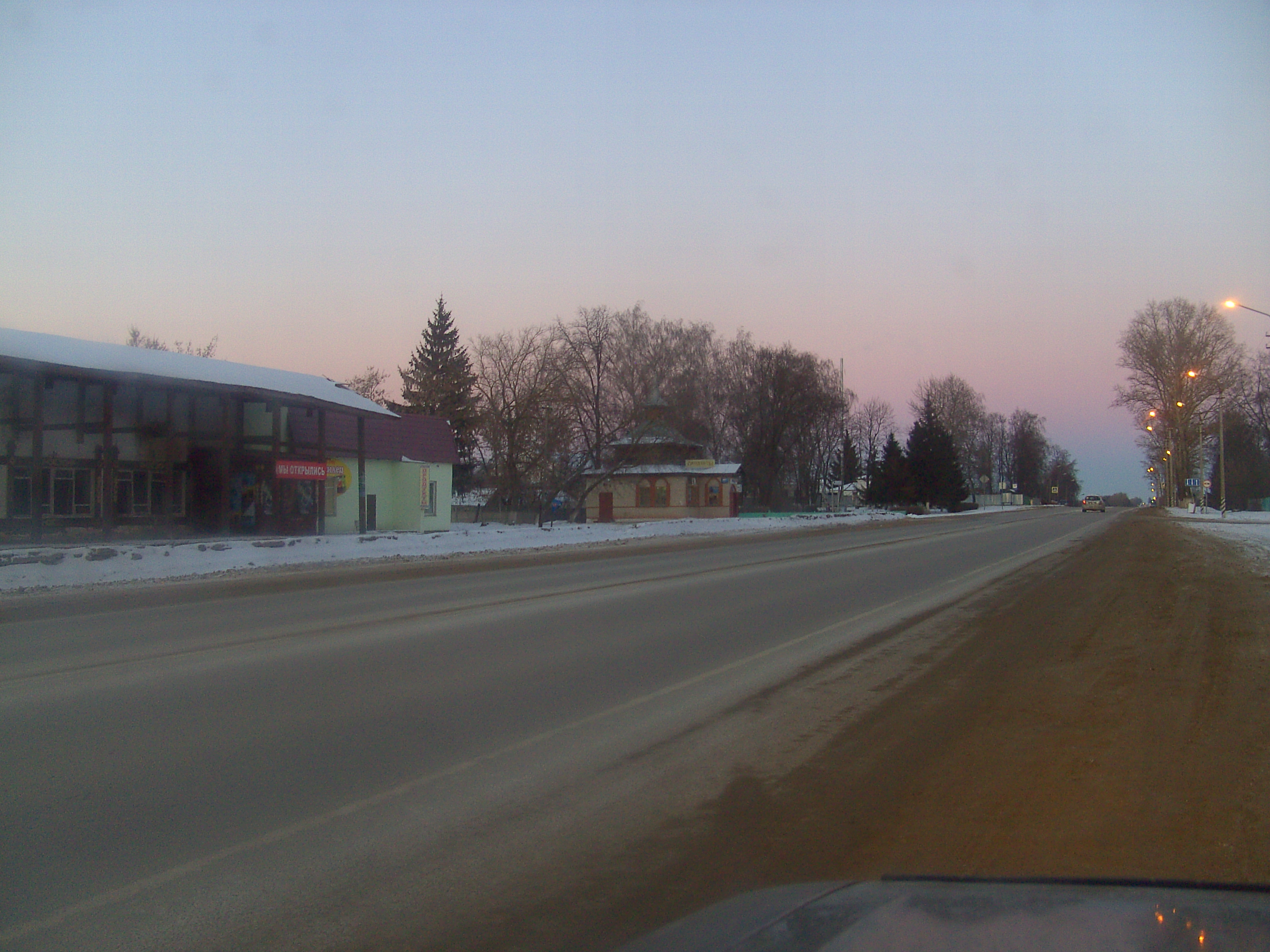 Первый Воин